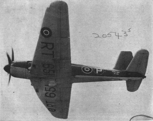 The Blackburn B-48 or YA.1"Firecrest". First prototype.